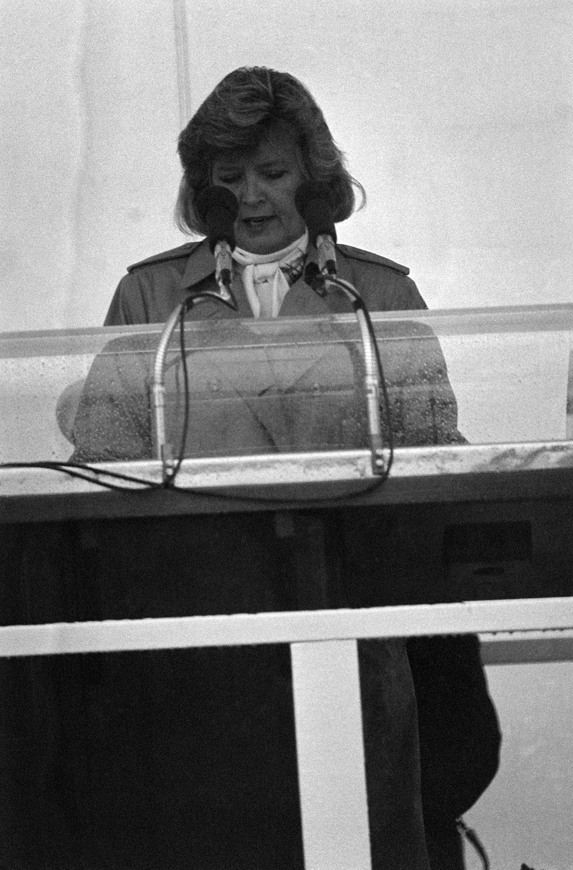 "Martha Layne Collins, governor of Kentucky, speaks during the commissioning of the nuclear-powered attack submarine USS LOUISVILLE (SSN 724). Location: GROTON, CONNECTICUT (CT) UNITED STATES OF AMERICA (USA)"